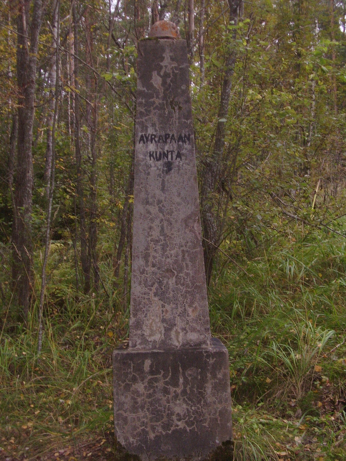 Old boundary marker of Äyräpää. Plake is near Vuoksa.